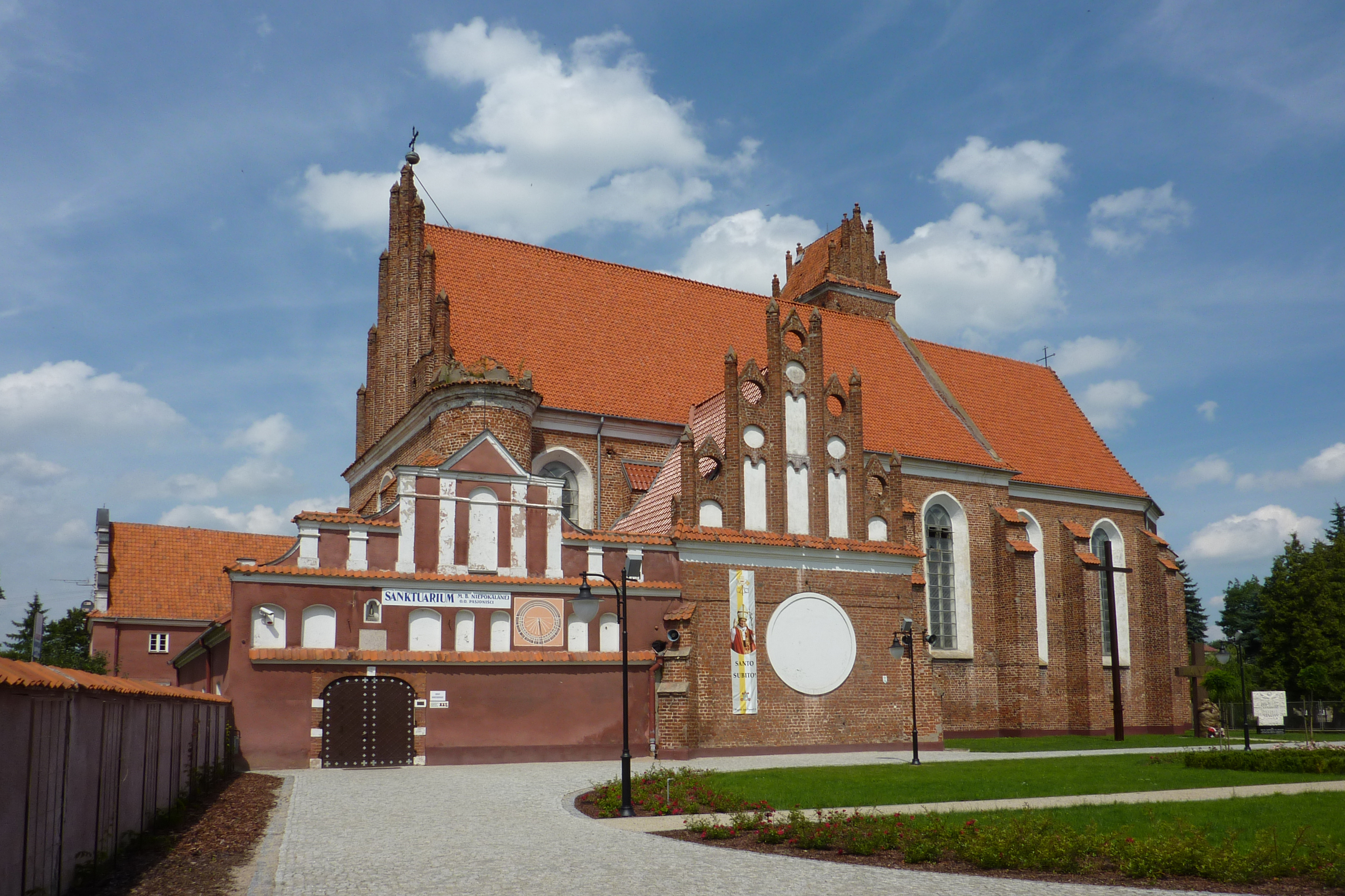 Former Franciscans monastery and Saints Anne and James church in Przasnysz